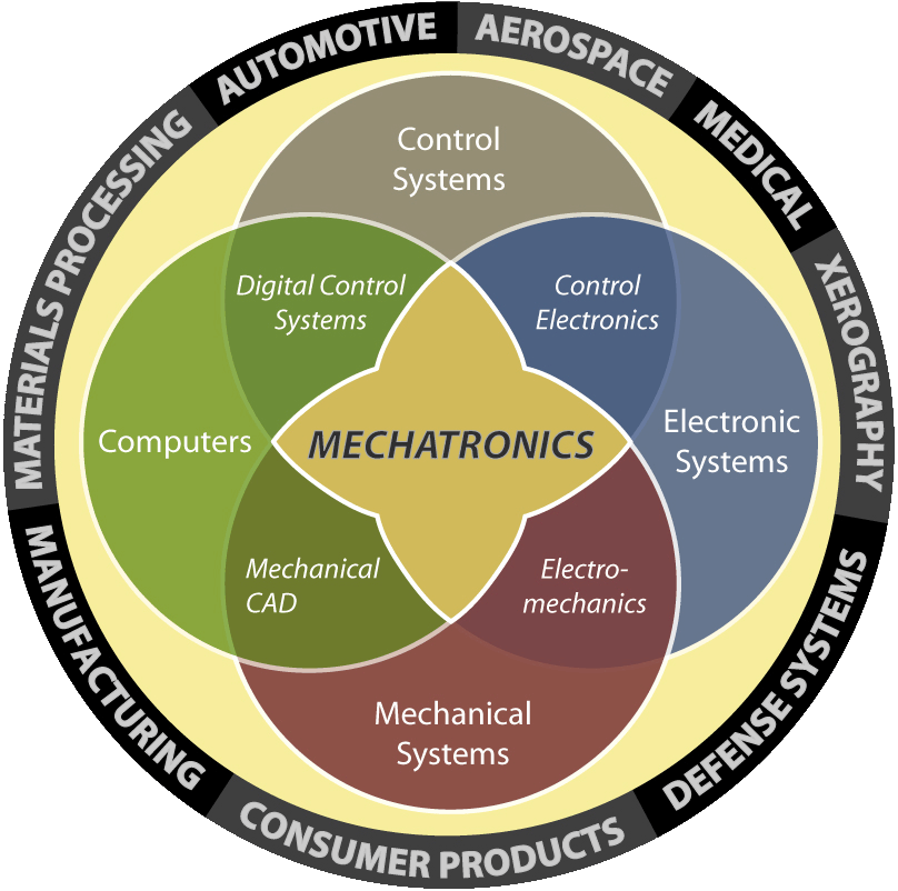 Mechatronics diagram